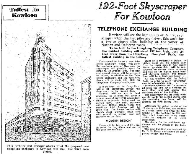 The newspaper clipping of Hongkong Telegraph on 2 February 1948: The piling of the Hong Kong Telephone Building, which would be built on the intersection of Nathan Road and Cameron Road in Kowloon Peninsula, Hong Kong